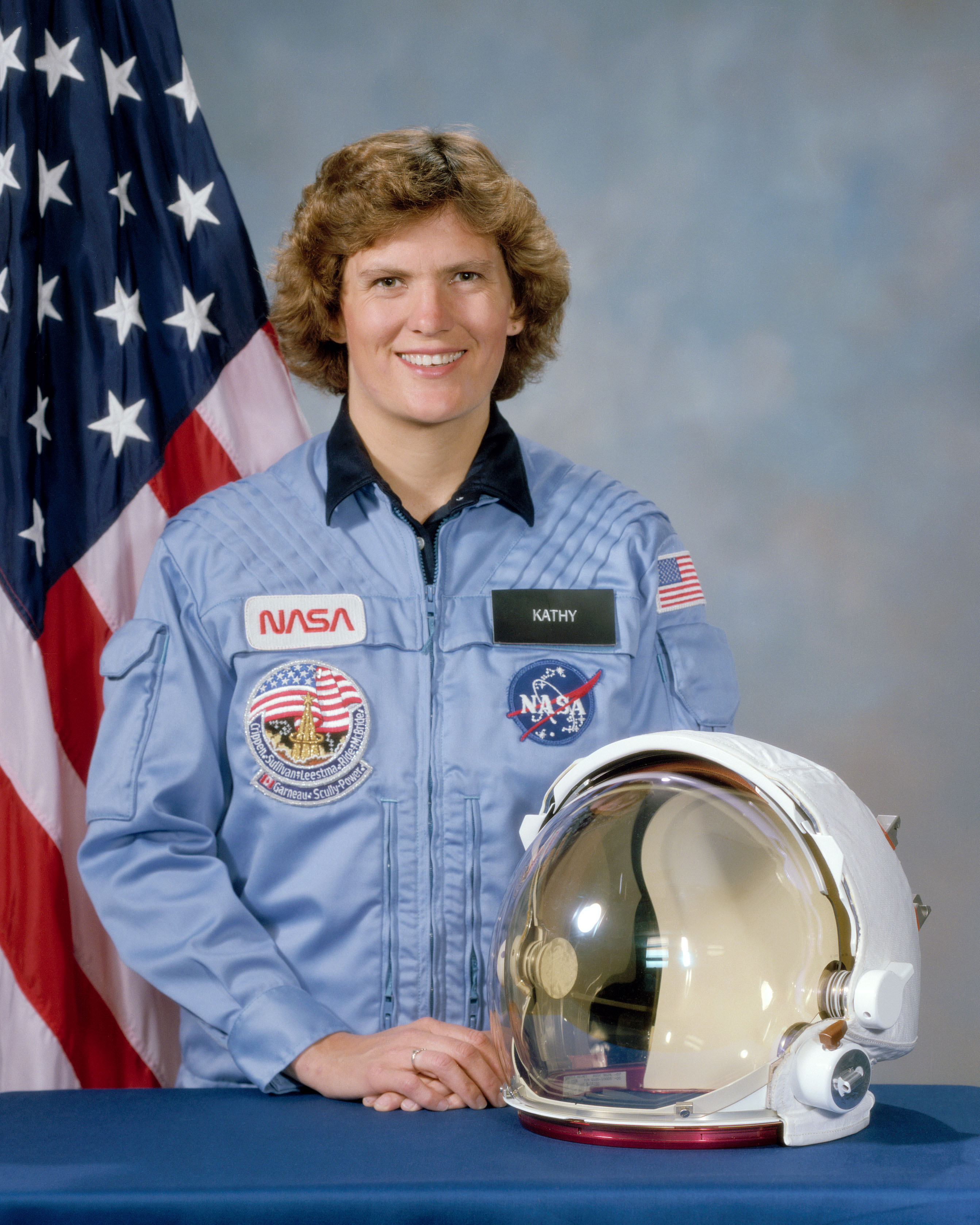 Portrait former NASA astronaut Kathryn Dwyer Sullivan.